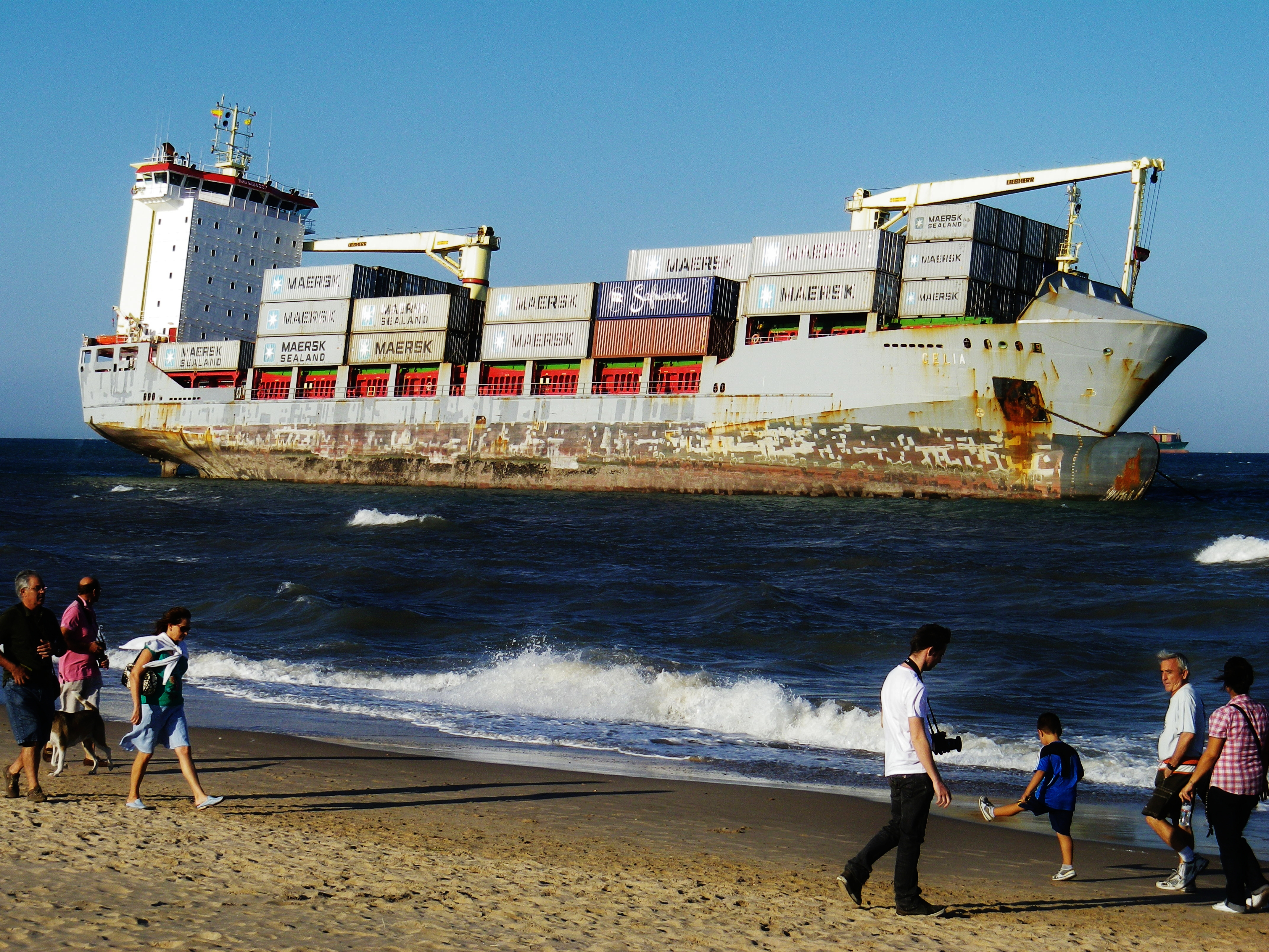 BARCOS VARADOS